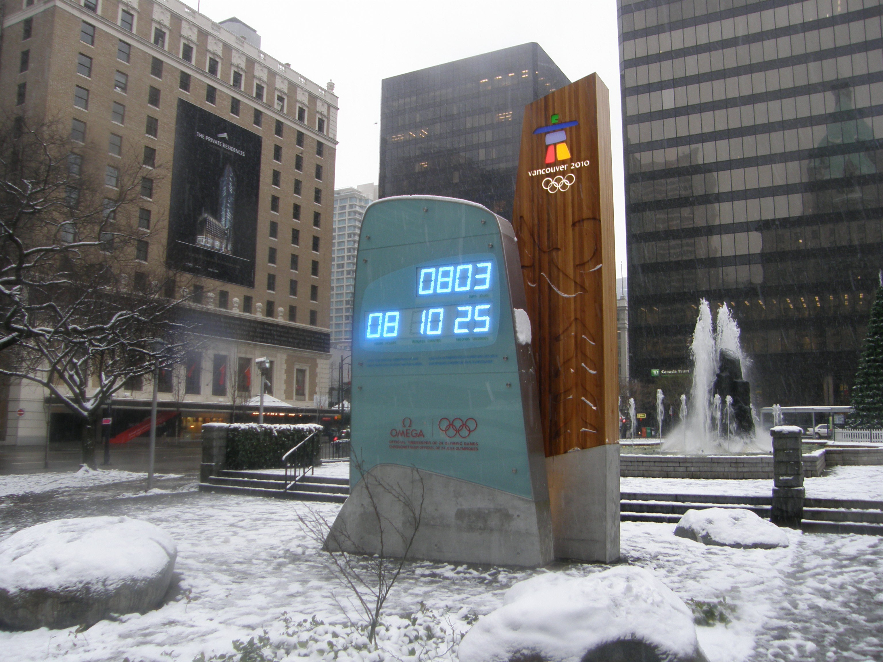 The clock in Downtown Vancouver displaying a countdown to the opening of the 2010 Winter Olympics: from top, days, hours, minutes, seconds.